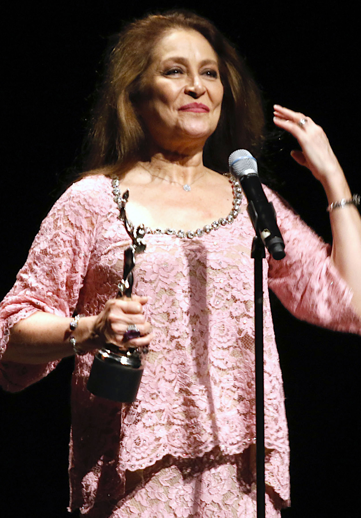 Martes 12 de marzo de 2019 En el Teatro de la Ciudad Esperanza Iris, se realizó la ceremonia de entrega de los Premios de la Agrupación de Críticos y Periodistas de Teatro, encabezada por Gustavo Gerardo Suárez presidente, el premio que se otorga lleva como nombre Dama de la Victoria. Actriz Principal en Musical - Daniela Romo / Hello, Dolly! Fotografía: Milton Martínez / Secretaría de Cultura de la Ciudad de México